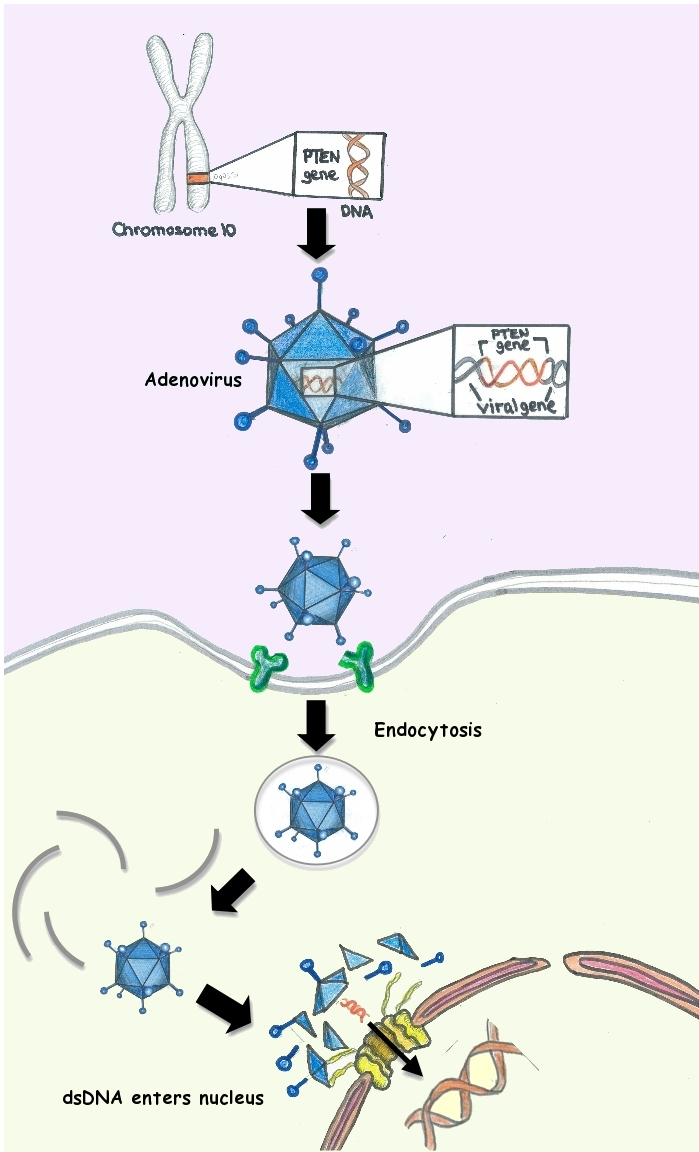 Adenovirus-mediated gene therapy adapted from.